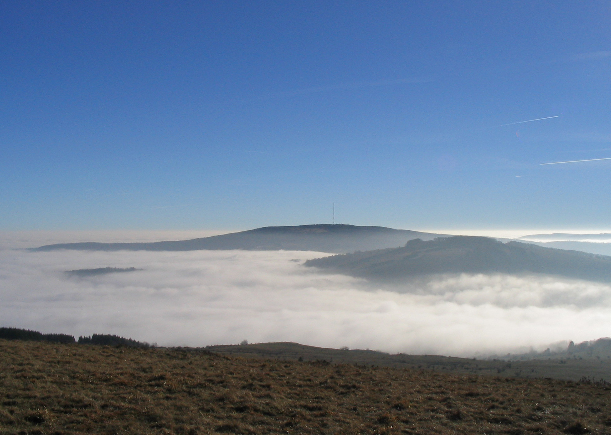 Kreuzberg (928 m)in the Rhoen from the North during temperature inversion 200 m above the fog